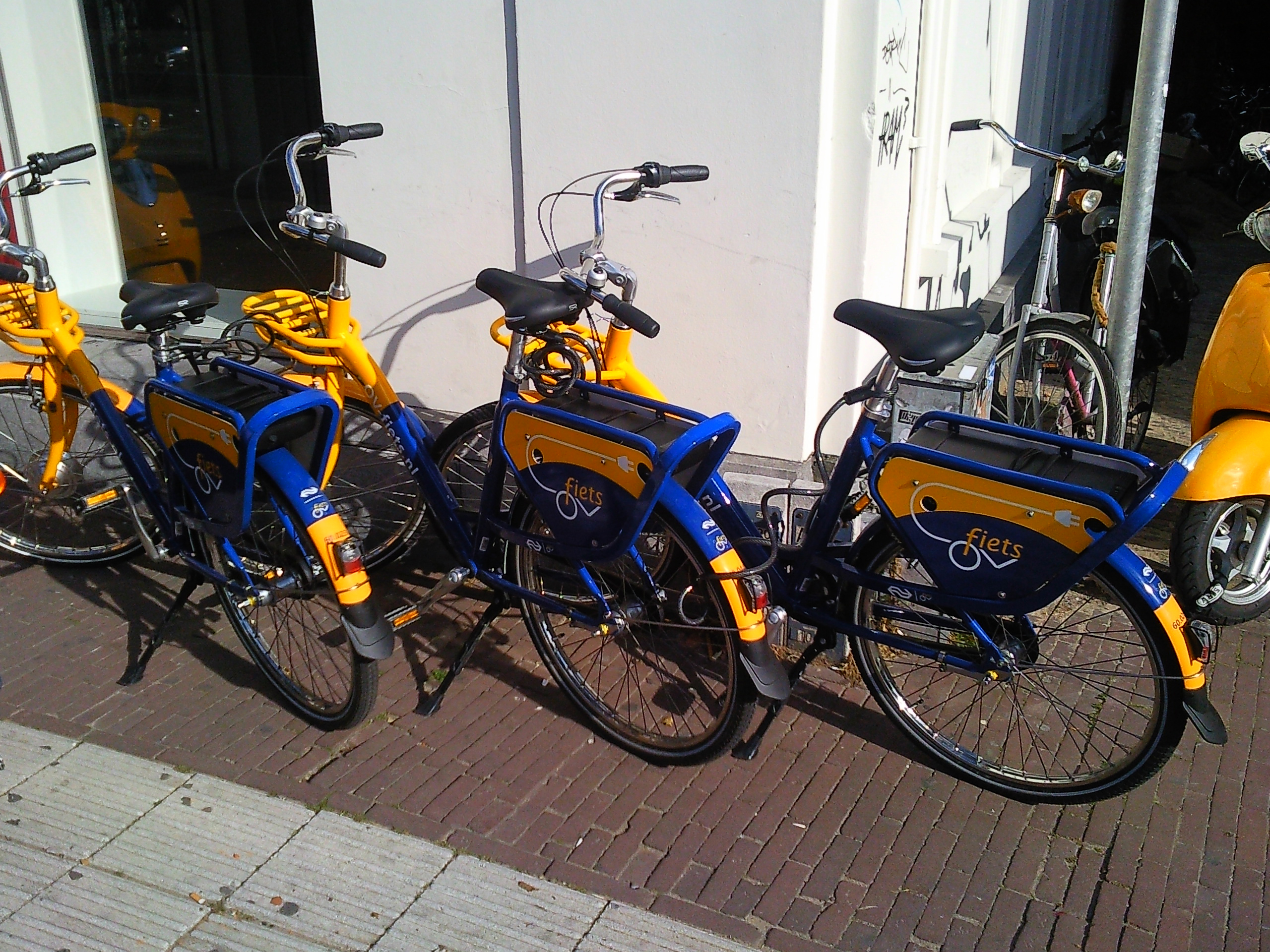 Special adjusted electric bicycle Union in the colours of the Dutch Railways (rent-a-bike)